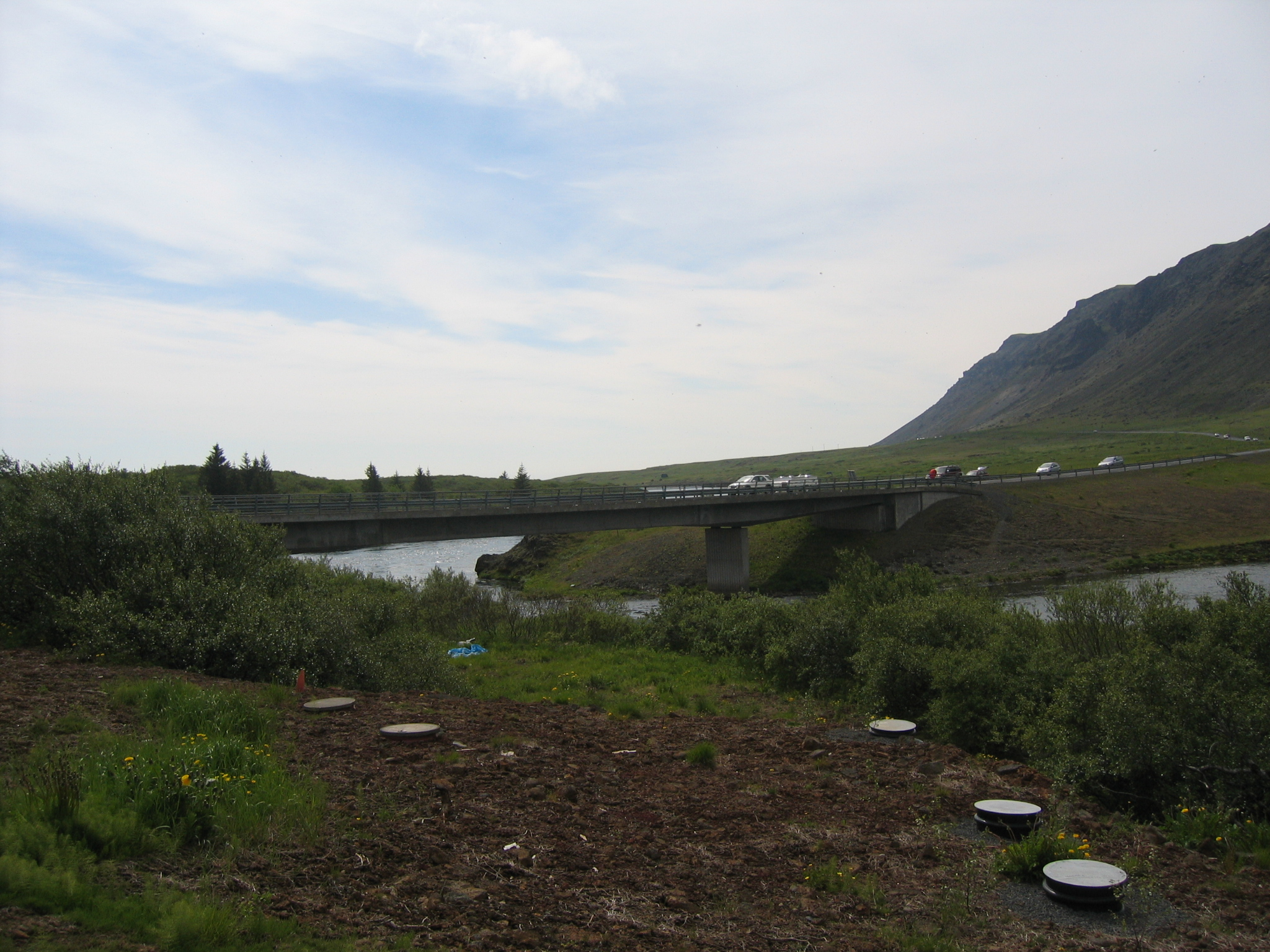 The bridge over river Sogið in Þrastarlundur, Southern Iceland